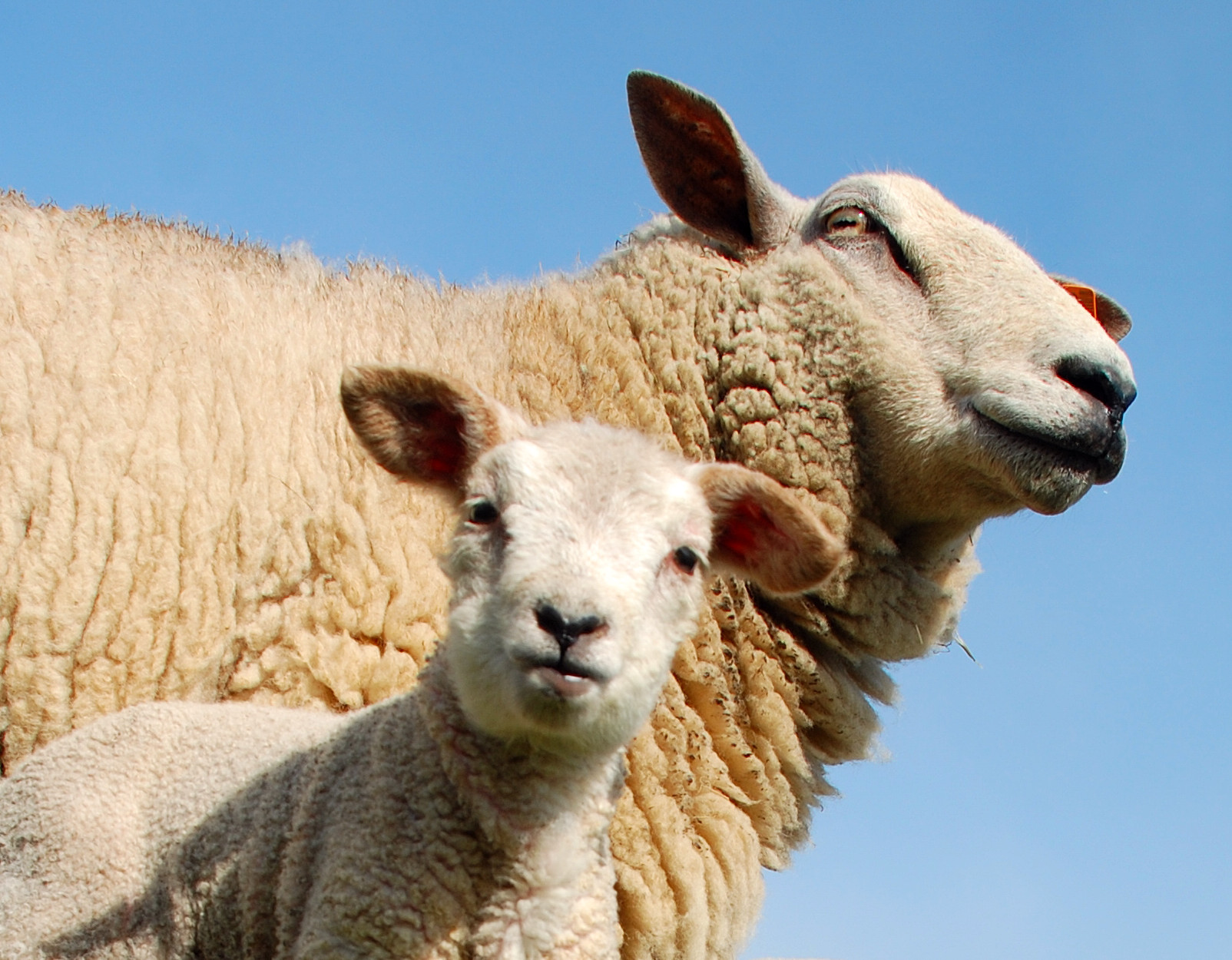 Mother with child.